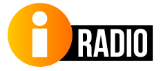 The logo of Irish radio station iRadio.